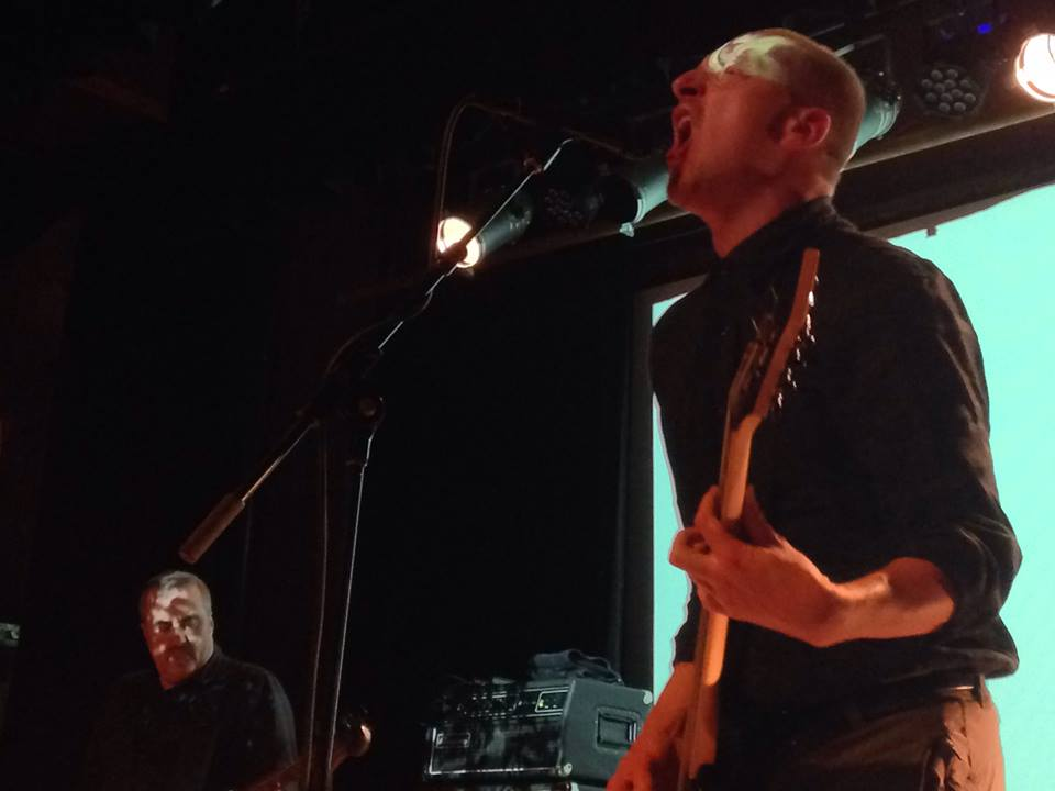 Godflesh perform live at the Warsaw in Brooklyn, NY on September 16, 2015.